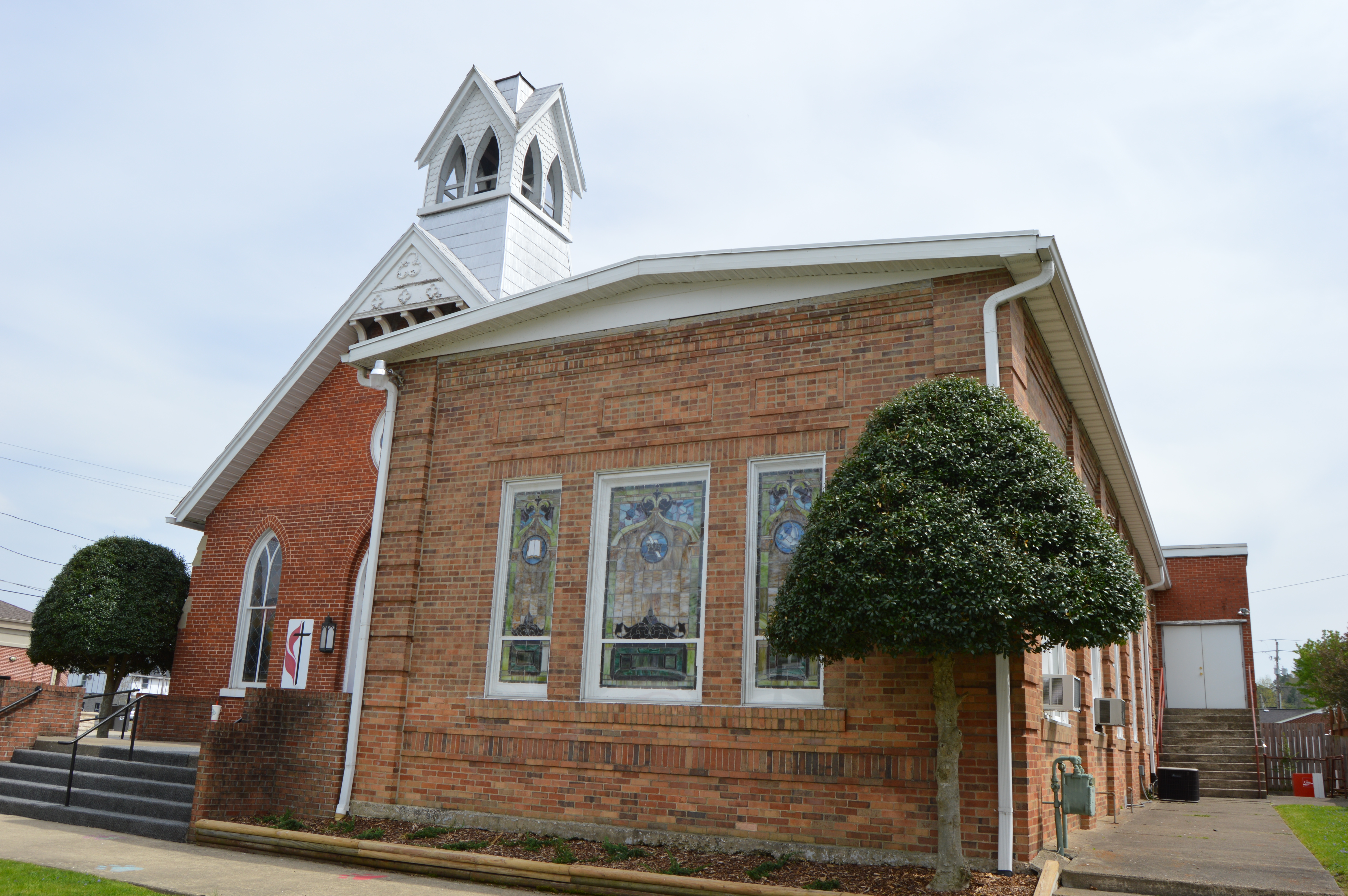 Front of the First United Methodist Church, located at 204 W. Main Street in Louisa, Kentucky, United States. Built in 1850 and later expanded, it is listed on the National Register of Historic Places, and it is part of a Register-listed historic district, the Louisa Residential Historic District.